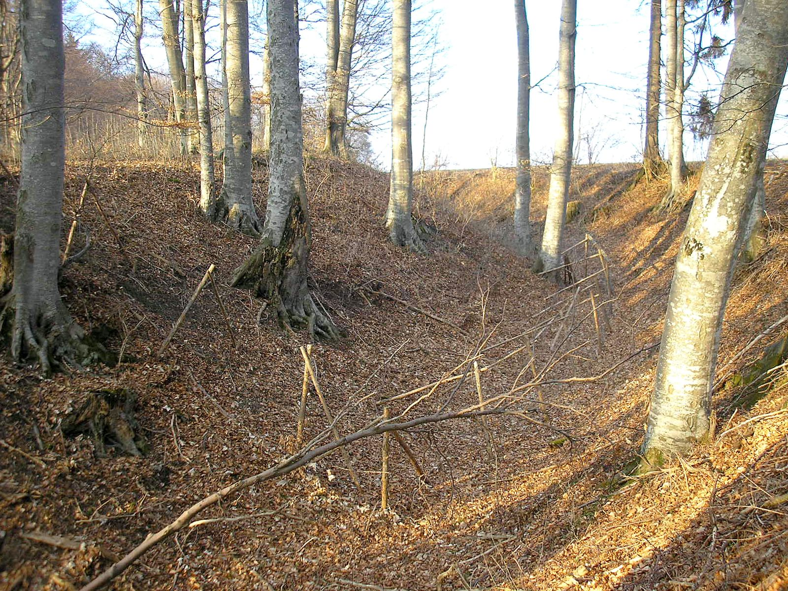 Helmishofen castle near Markt Kaltental (Landkreis Ostallgäu, Bavaria, Germany). High Middle Ages Motte-and-bailey castle ca. 250 meters south of Helmishofen castle